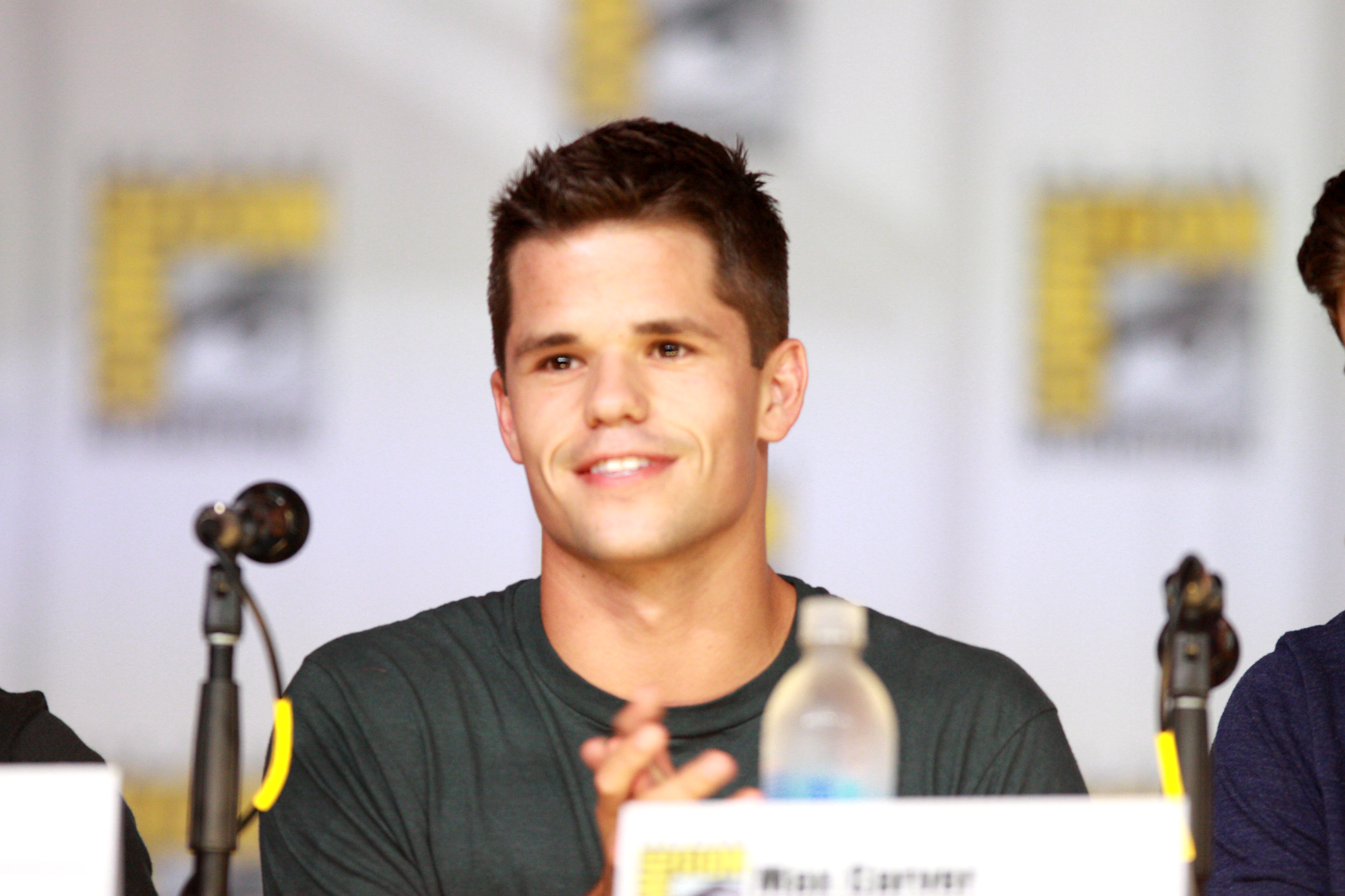 Carver at San Diego Comic Con International in 2013